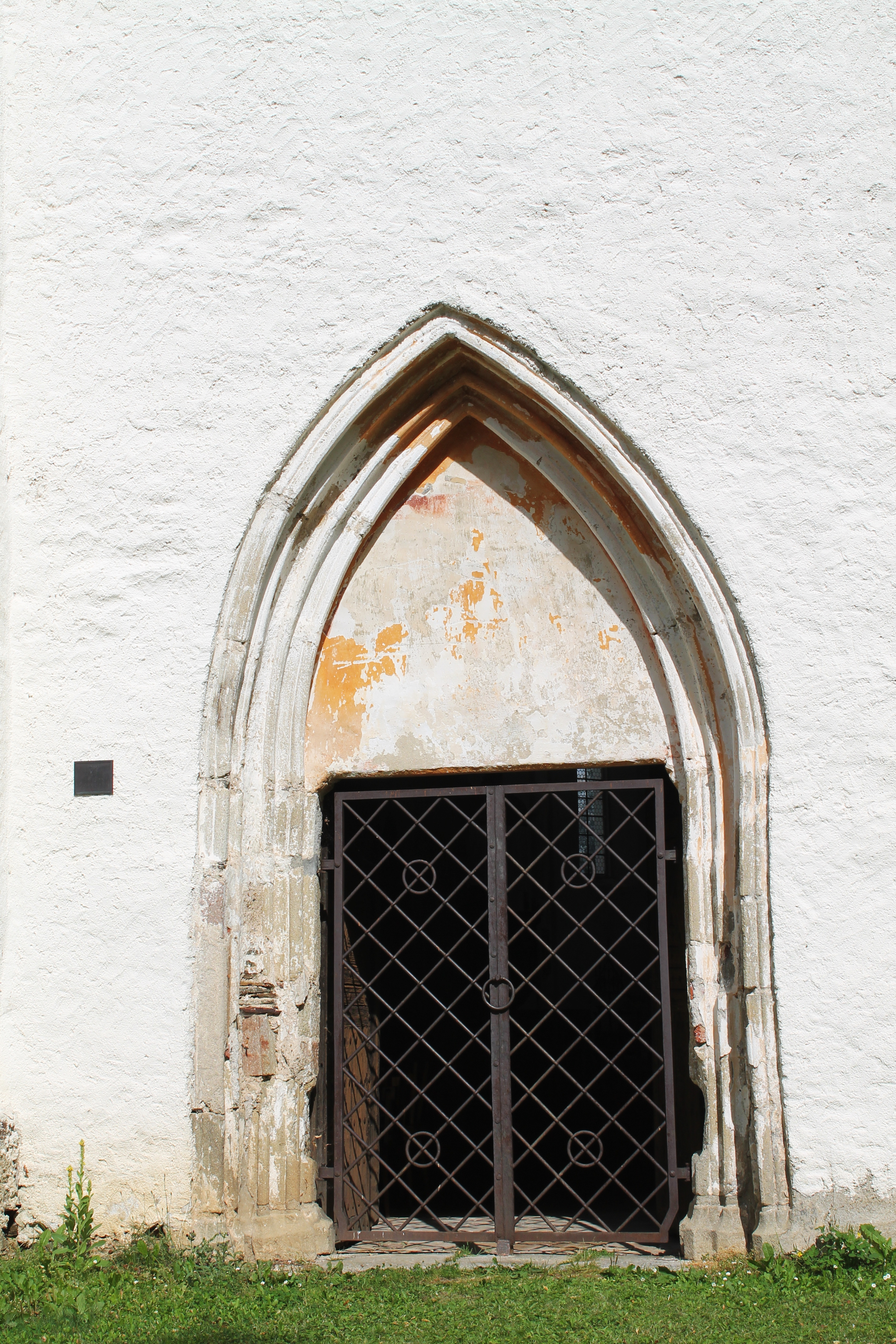 Church of Saint Nicholas, Kašperské Hory, Klatovy District, Czech Republic - Google Maps - Google Earth